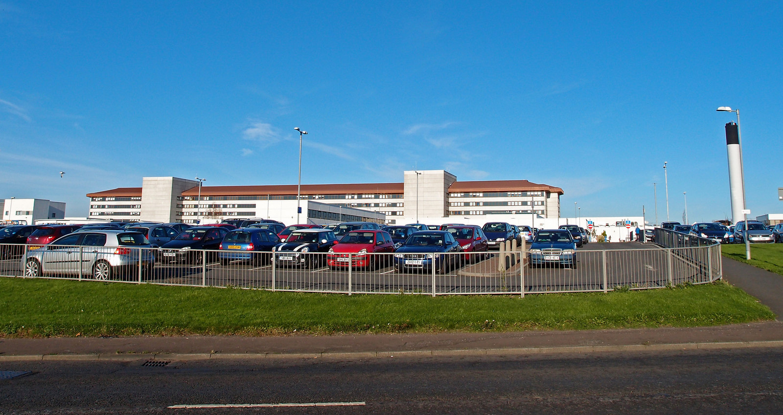 Crosshouse